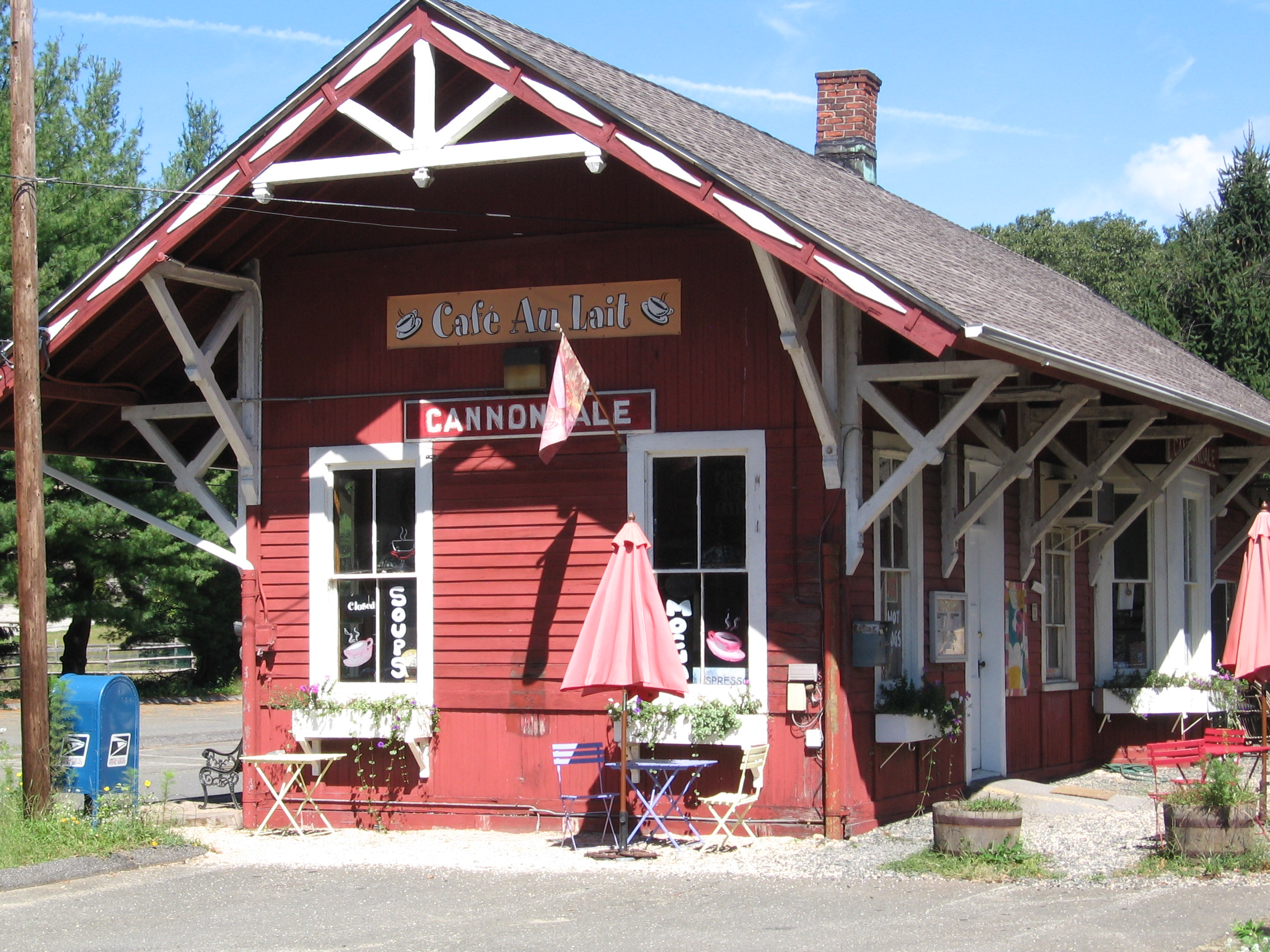 Station house and restaurant, Cannondale Railroad Station in the Cannondale section of Wilton. View is from the street on the south side of the building. The platform is to the viewer's right and just north of the station house. Railroad tracks are to the viewer's right.